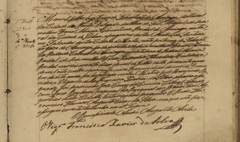 Baptism register (at the time, the equivalent of a birth record) of Manuel de Arriaga (1840-1917), dated 16 December 1840. Matriz Parish, Horta, Faial Island, Azores.